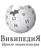 A logo for Wikipedia in the Bashkir language.